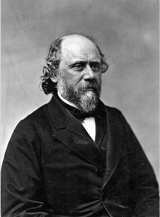 Richard Henry Dana, Jr by Asa B. Eaton